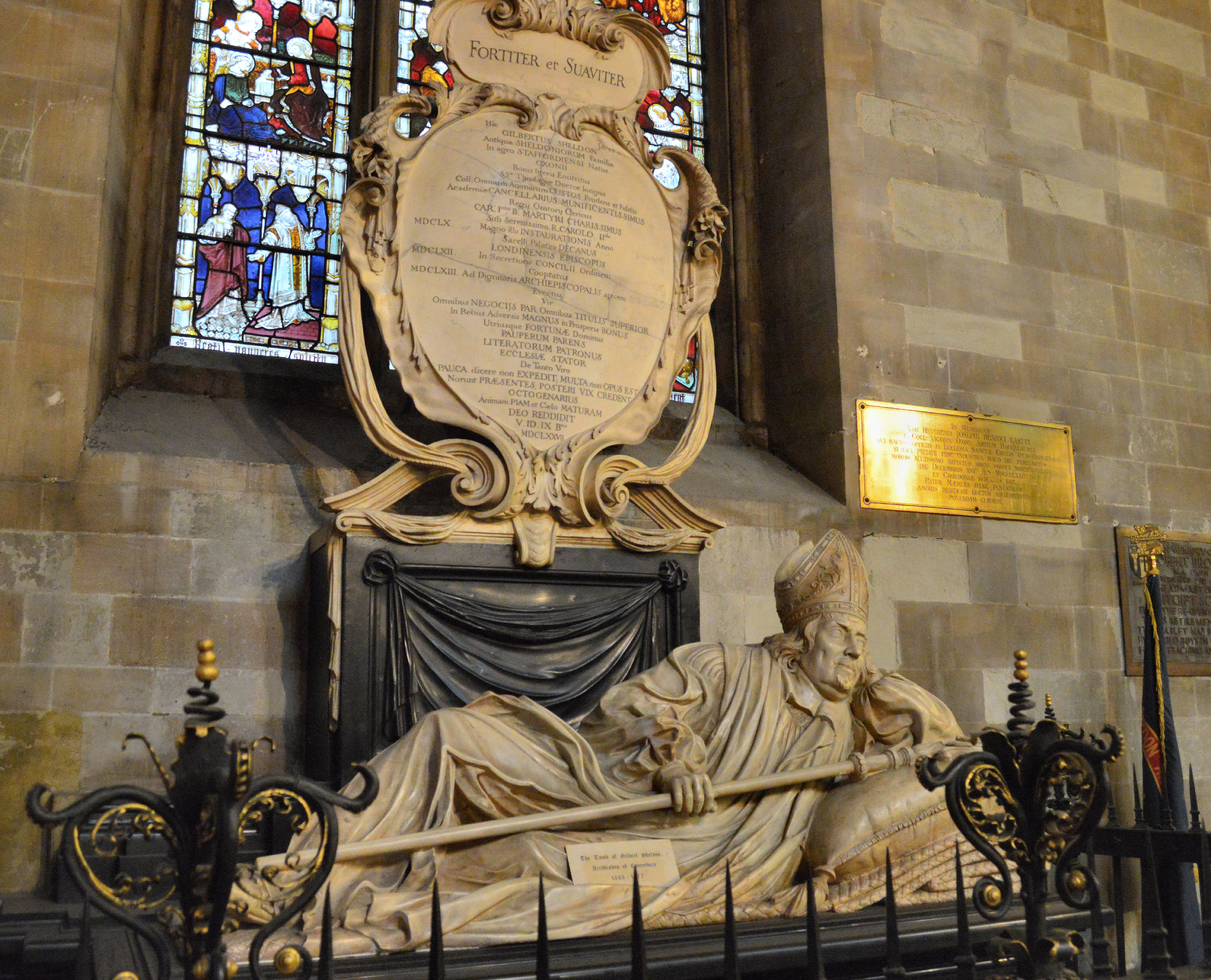 Croydon Minster, Gilbert Sheldon tomb c1677 by Jasper Latham